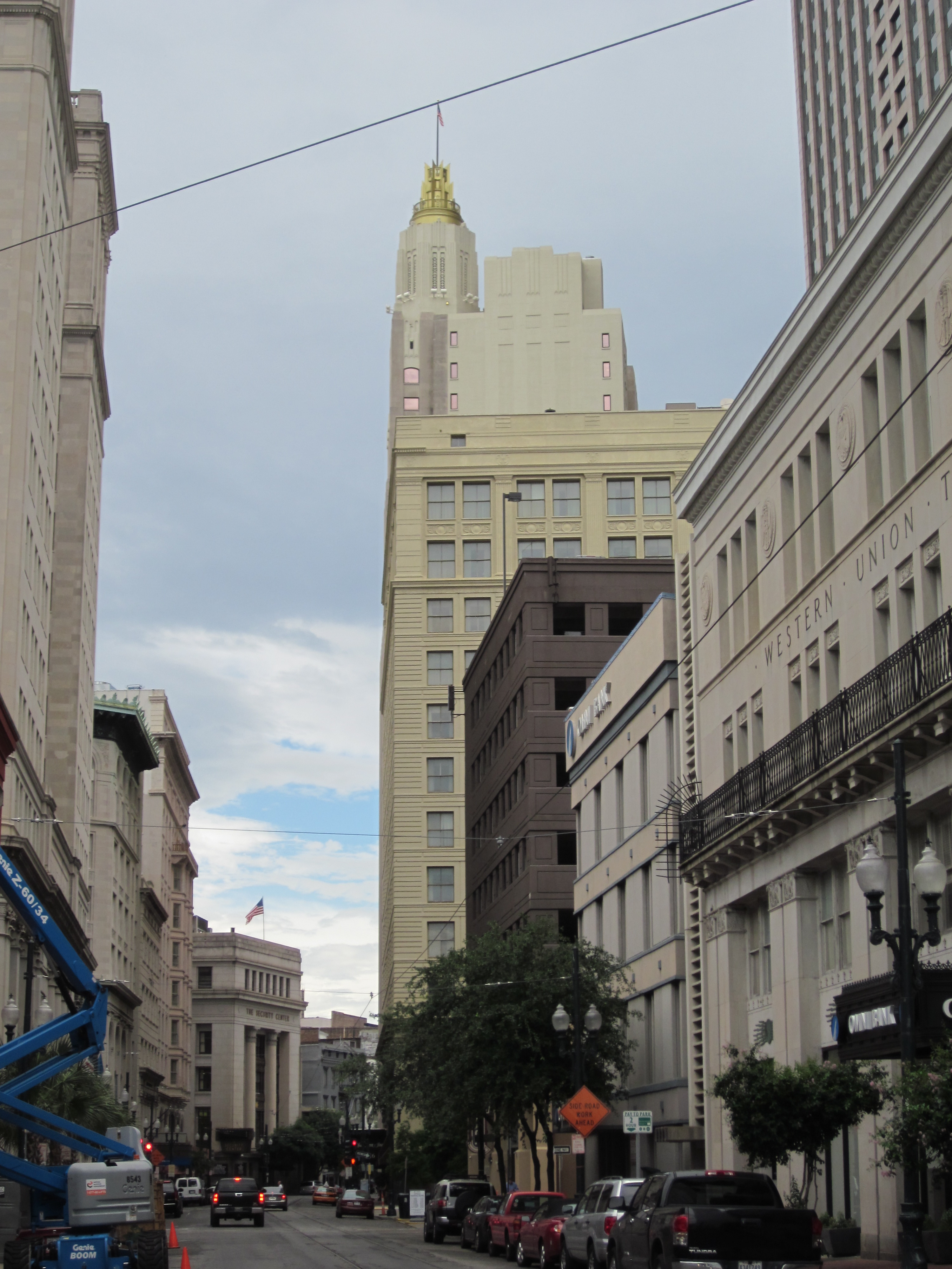 Carondelet Street up from Canal Street, New Orleans Central Business District.